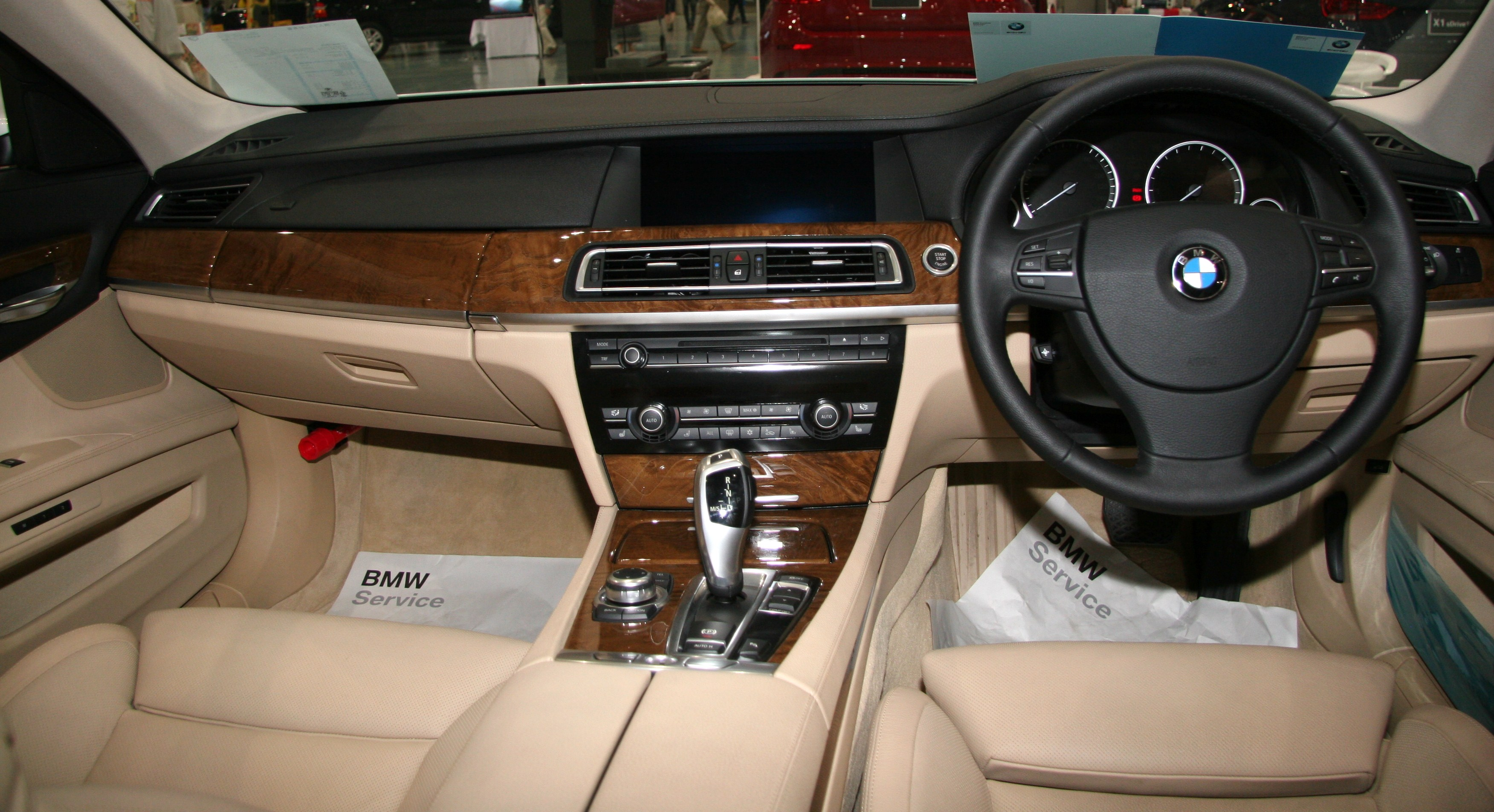 BMW 740i